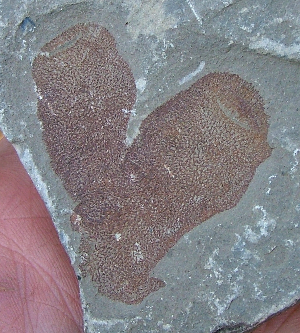 The Burgess Shale sponge Hazelia. Specimen from the collections box at the Trilobite Beds, Mount Stephen